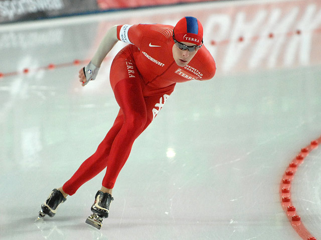 Sverre Haugli at the 2008 World Cup in Hamar.